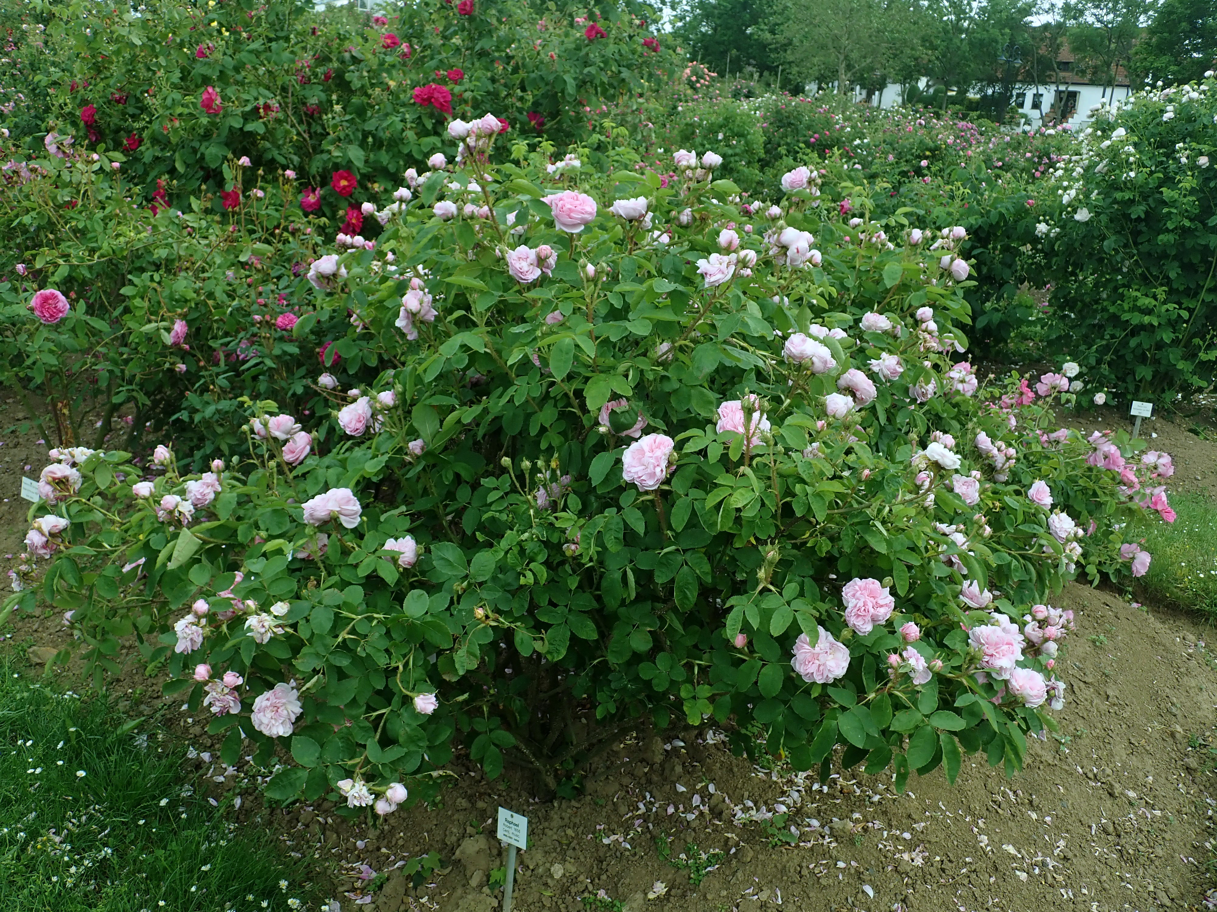 Rosa ‘Raphael’ (Robert, 1856), Europa-Rosarium Sangerhausen.